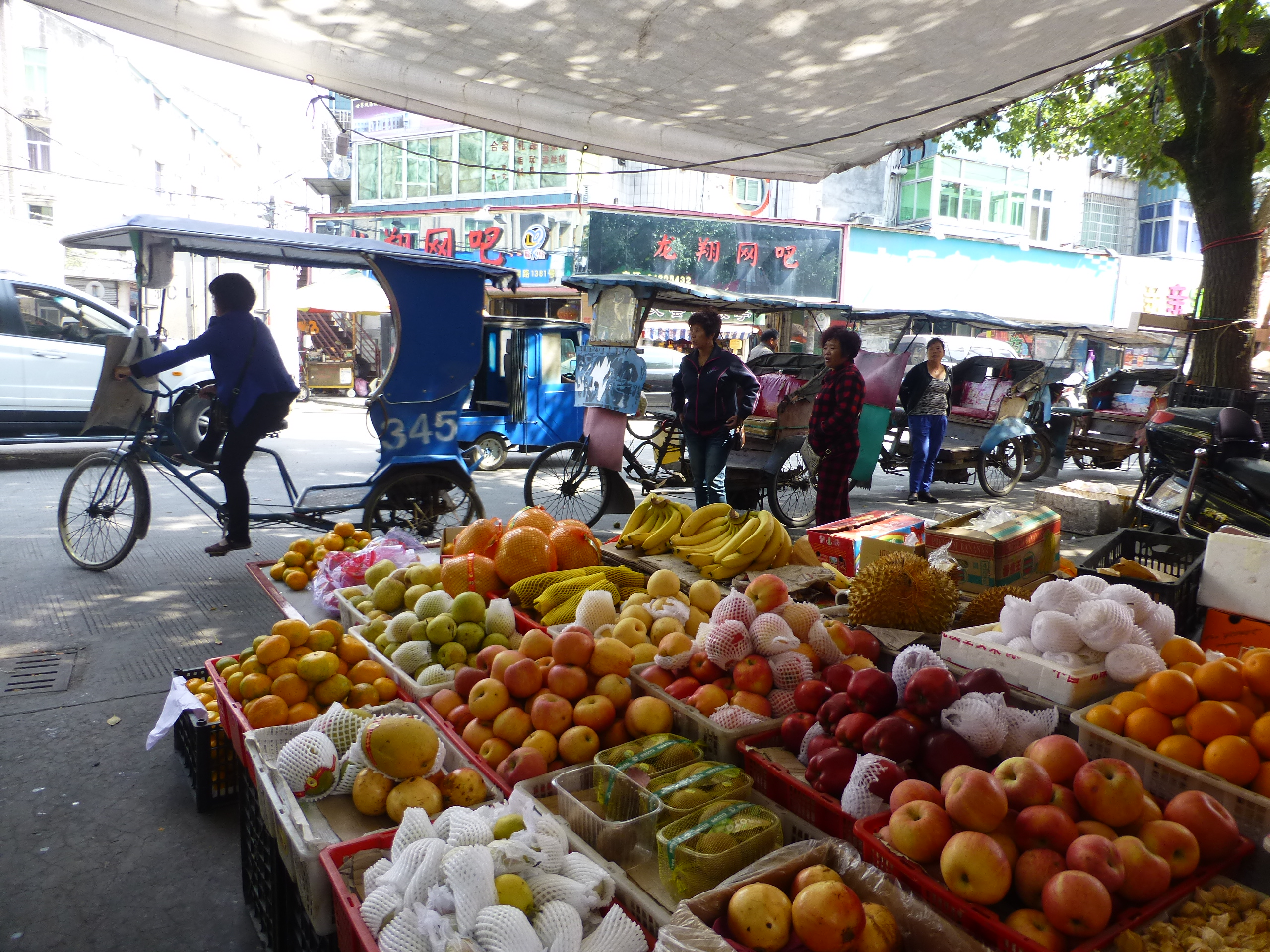 Longgang Town, Cangnan County, Zhejiang, China 中文（中国大陆）: 浙江省苍南县龙港镇